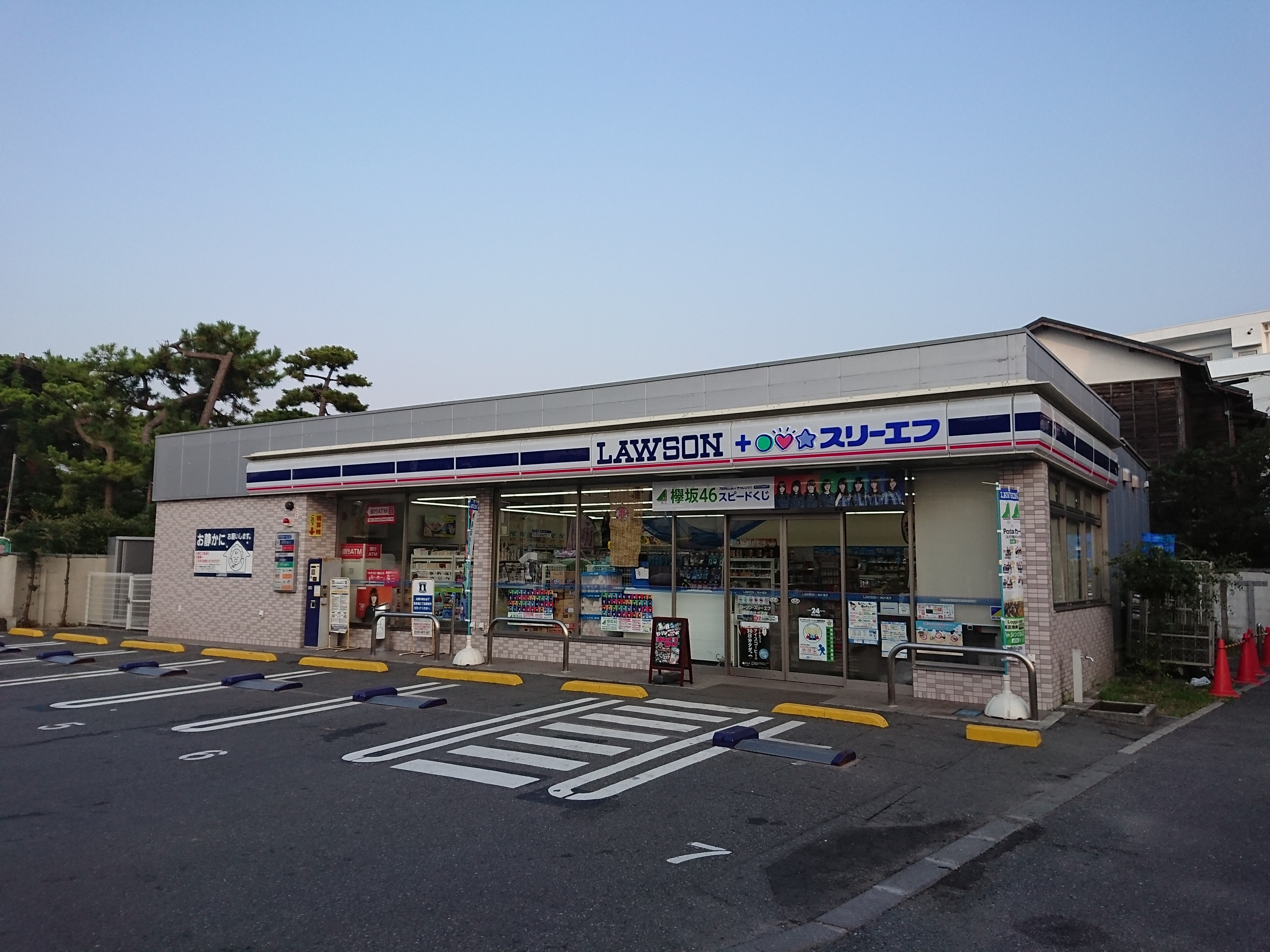 LAWSON KAMAKURA YUIGAHAMA STORE